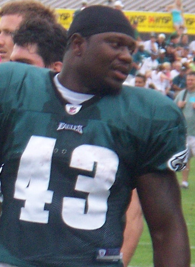 L-R: Mike Gibson, Dallas Reynolds (#66), Fenuki Tupou (#78), Lorenzo Booker (#25), Leonard Weaver (#43)